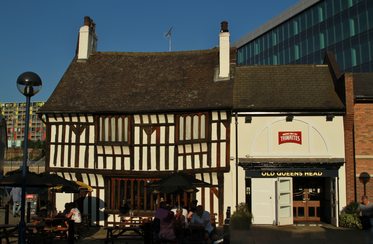 The Old Queen's Head public house, Pond Hill, Sheffield, South Yorkshire, seen from the west